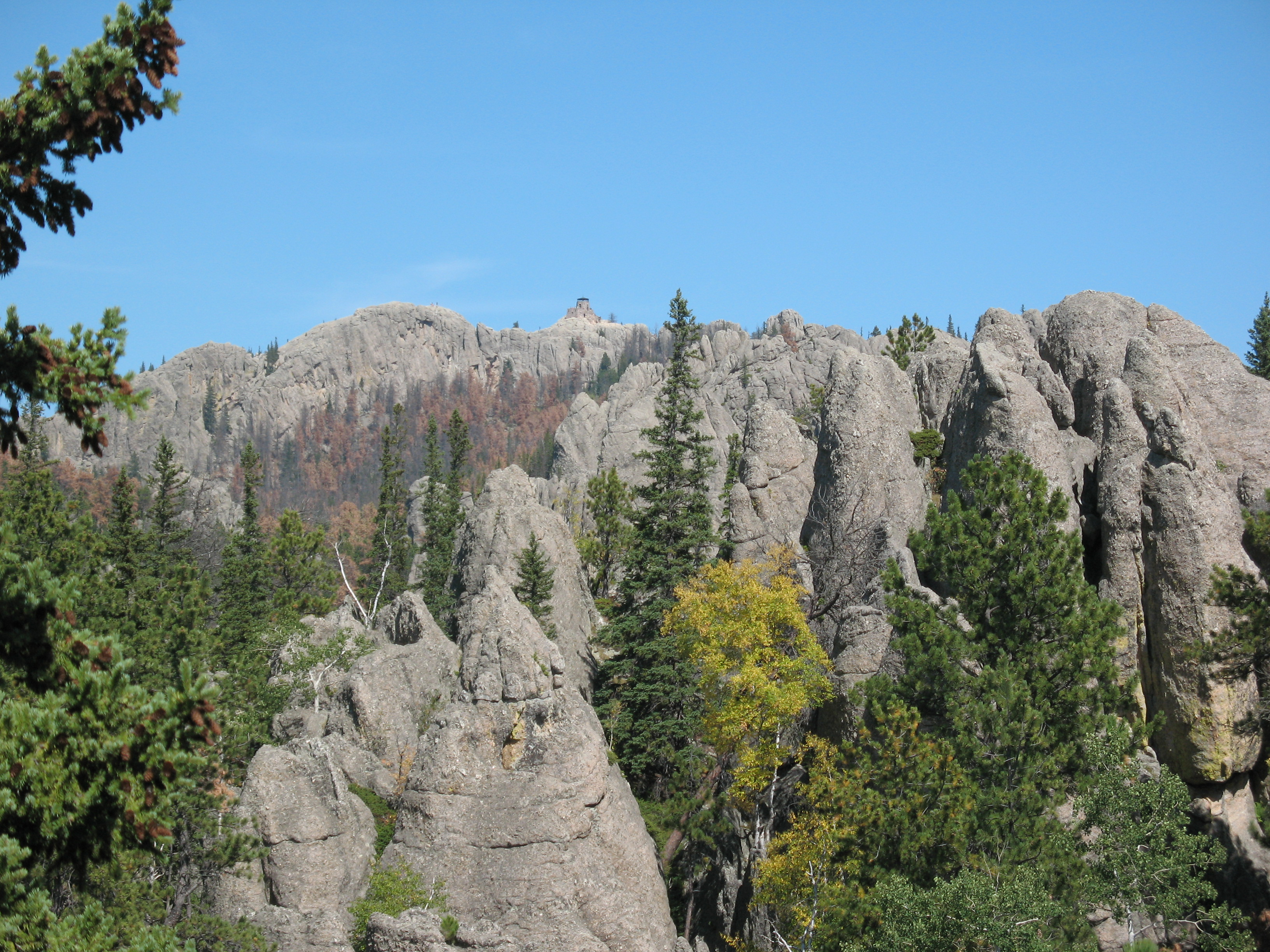 A view of Harney Peak from an overlook along the Sylvan Lake trail.